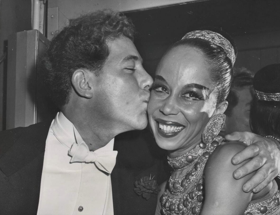 A vintage 5 1/8" X 6 1/2" inches photo from 1951 depicting Janet Collins receiving a kiss from Zachary Solov, Met's chief choreographer and ballet master.(In 1951 Janet Collins became the first black prima ballerina to perform with the Metropolitan Opera Ballet in New York City)